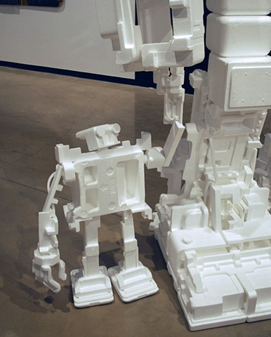 Big Styrobot and little buddy installation by Michael Salter. This installation at the Ulrich Museum of Art, Robots: A Cultural Icon in Contemporary Art (August 22 – December 18, 2009), was in partnership with the exhibition at the San Jose Museum of Art exhibition, Robots: Evolution of a Cultural Icon (April 12, 2008 – October 19, 2008).